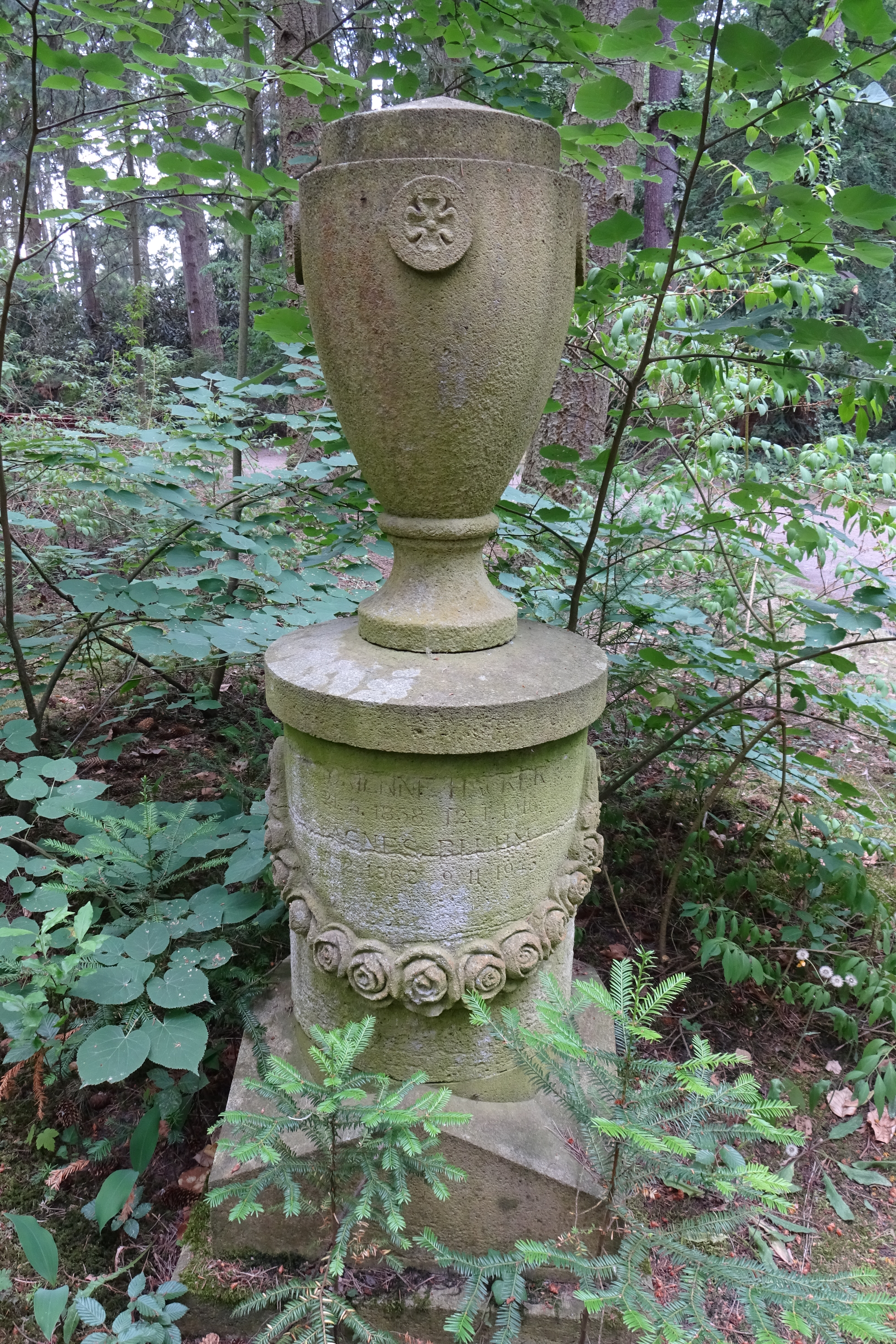 Grave of German physician Agnes Bluhm in Parkfriedhof Lichterfelde in Berlin, Germany.